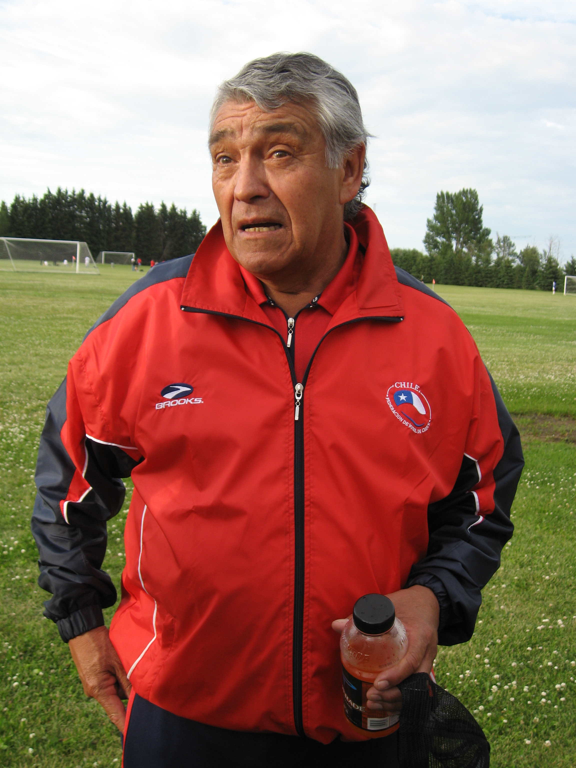 Chile Under-20 coach, Jose Sulantay, poses during the World Cup in Canada.